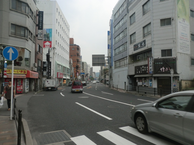 The Kagoshima Prefectural Road Route 24 in Kagoshima City